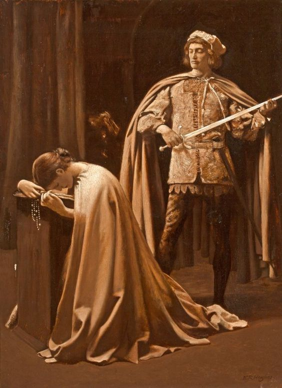 Edward Robert Hughes – Twixt Hope and Fear